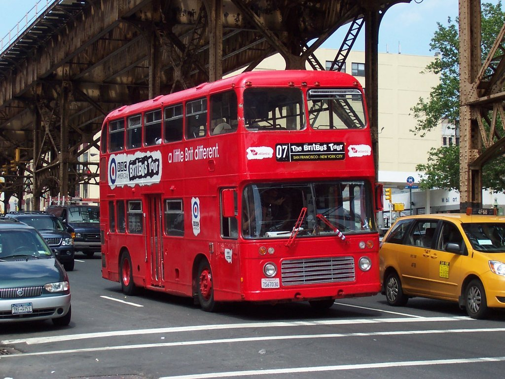 The BritBus bus at the time of the photo, a Bristol VR double-decker bus, is making its way down Broadway to stops in lower and midtown Mahnattan in 2007 on the date indicated. This VR was new to Eastern National as fleetnumber 3082, registered STW26W.